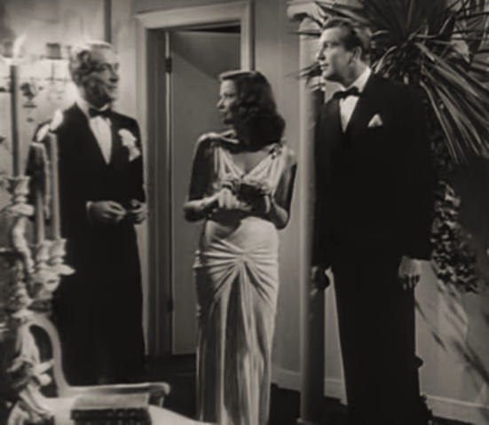 L. to R. : Clifton Webb, Gene Tierney & Vincent Price in Laura - trailer (cropped screenshot)